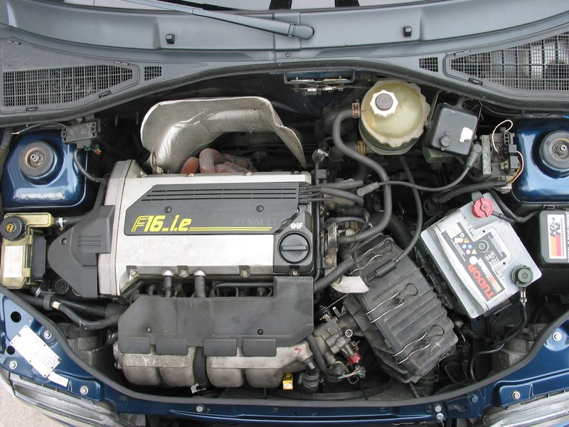 moteur clio williams